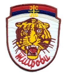 Tigers unofficial logo.